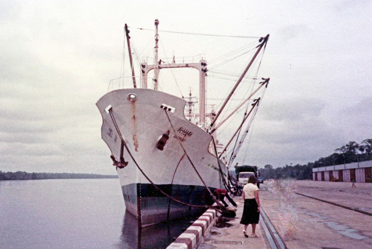 Calabar Port, Eastern Nigeria, in November 1981